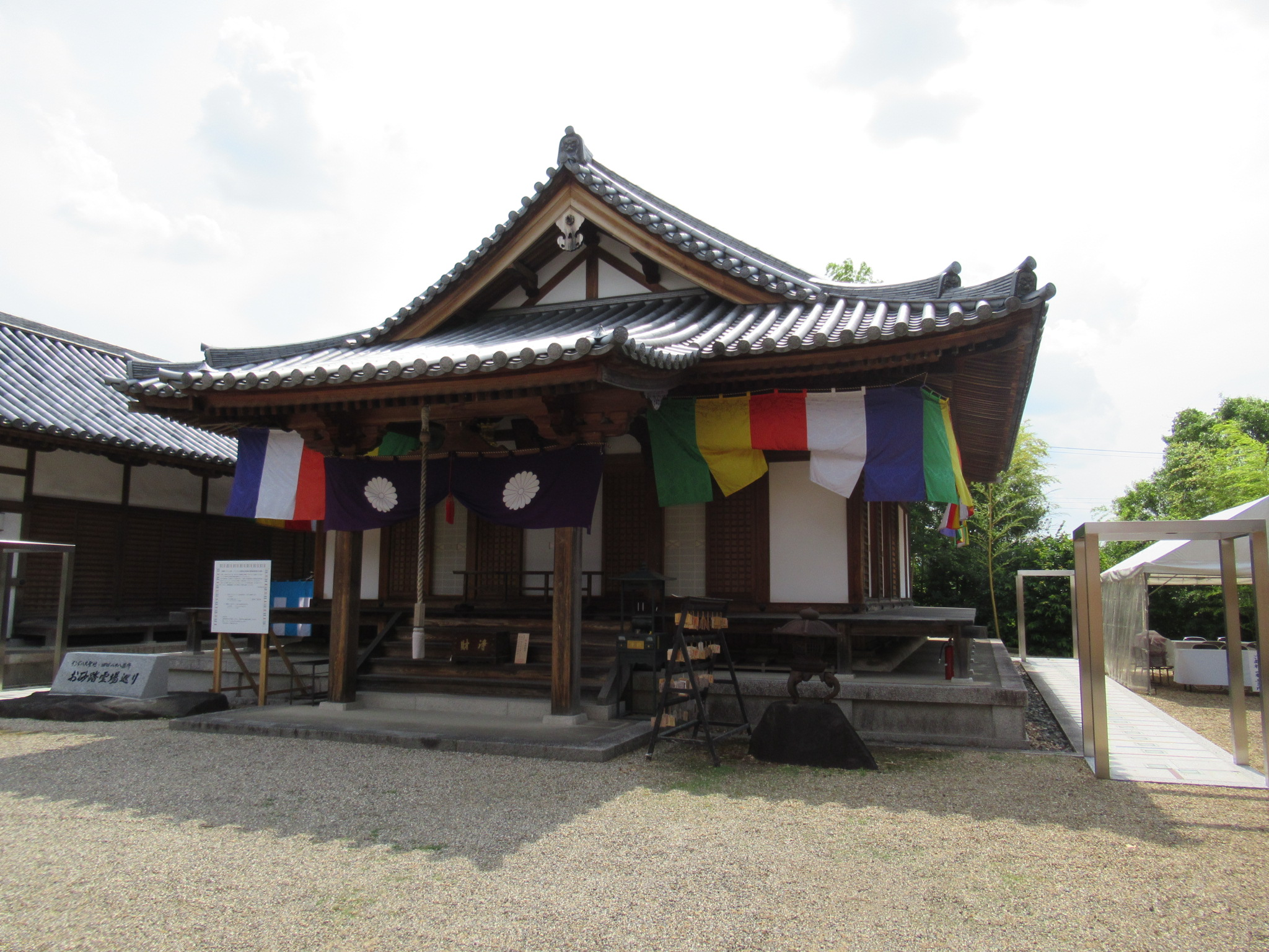 Daianji, Nara.